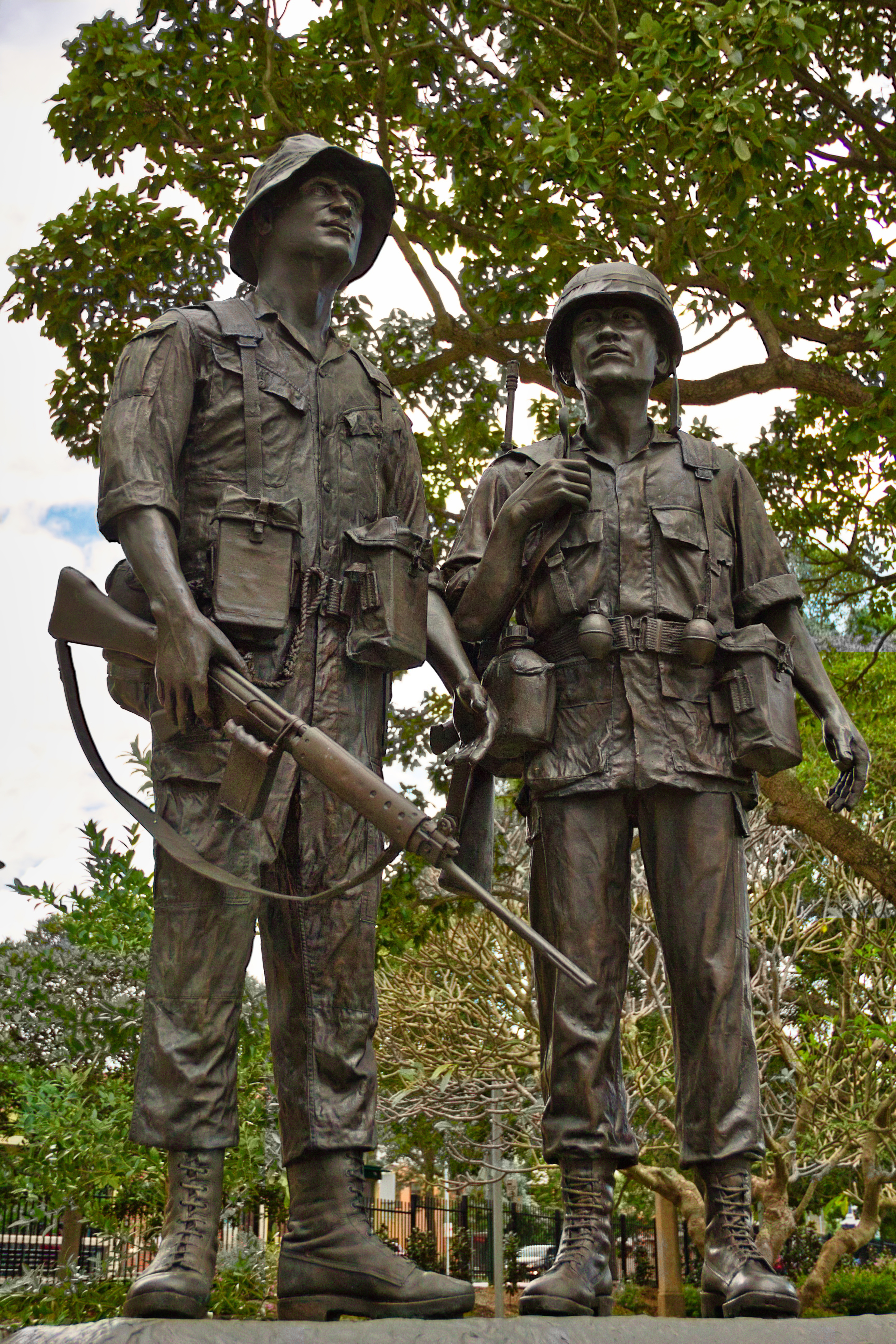 Australian Vietnamese War Memorial, Roma Street Parkland in Brisbane, QLD.